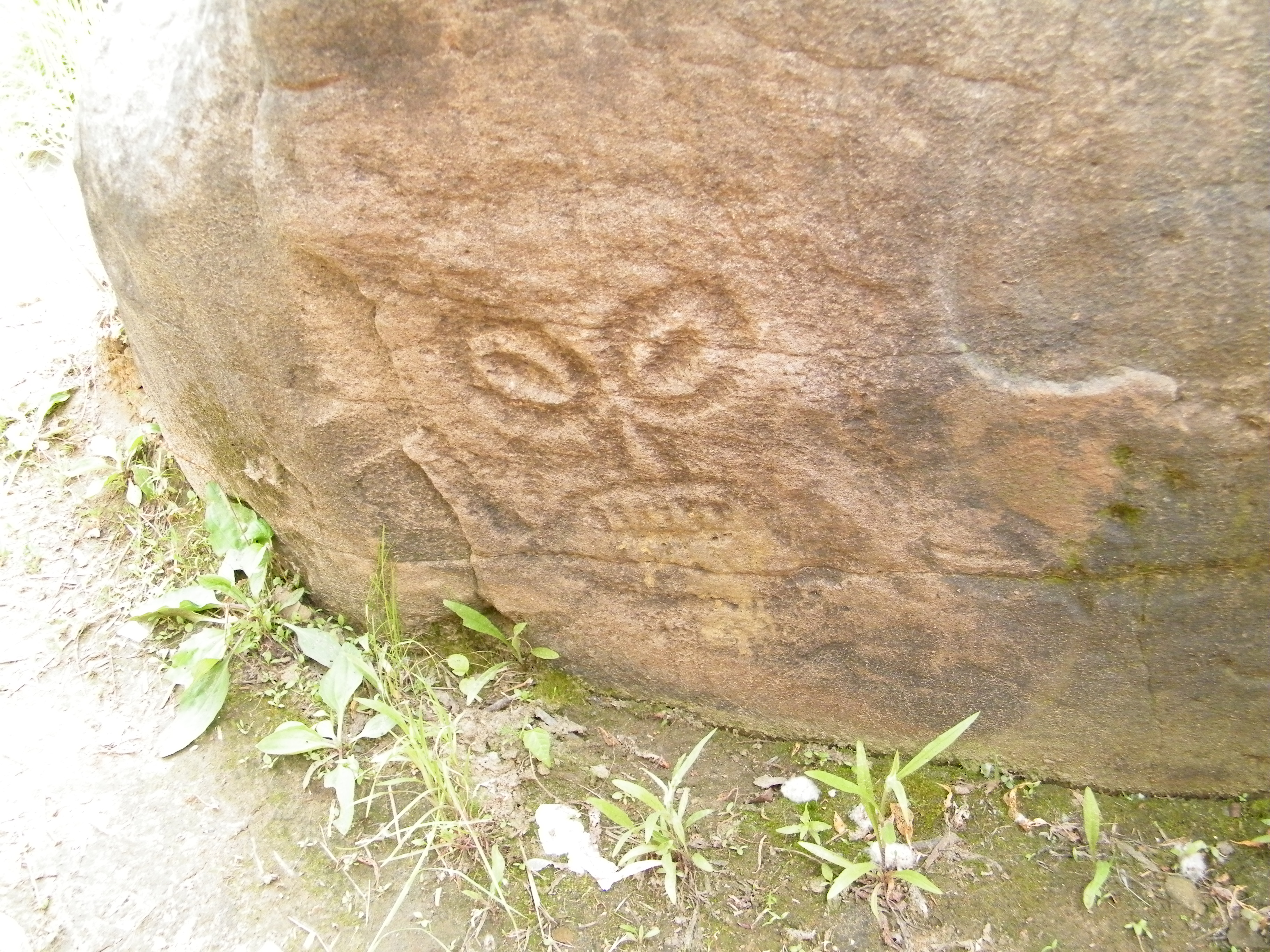 Petroglif of Sikachi-Alyan